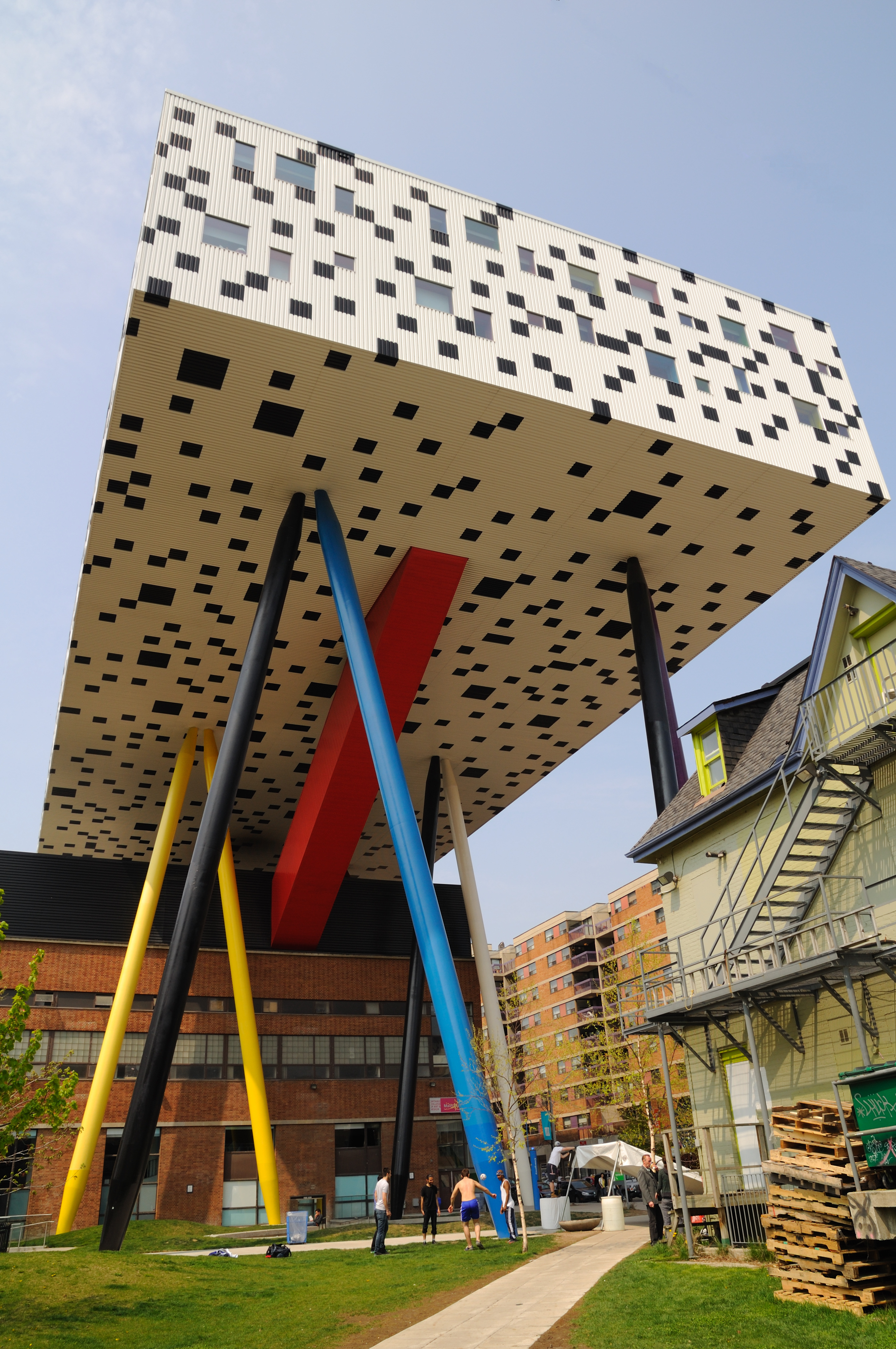 Sharp Centre for Design, Toronto